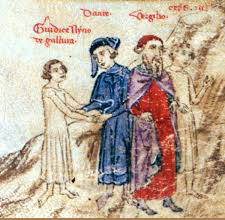 Nino Visconti, last Giudice of Gallura, with Dante Alighieri